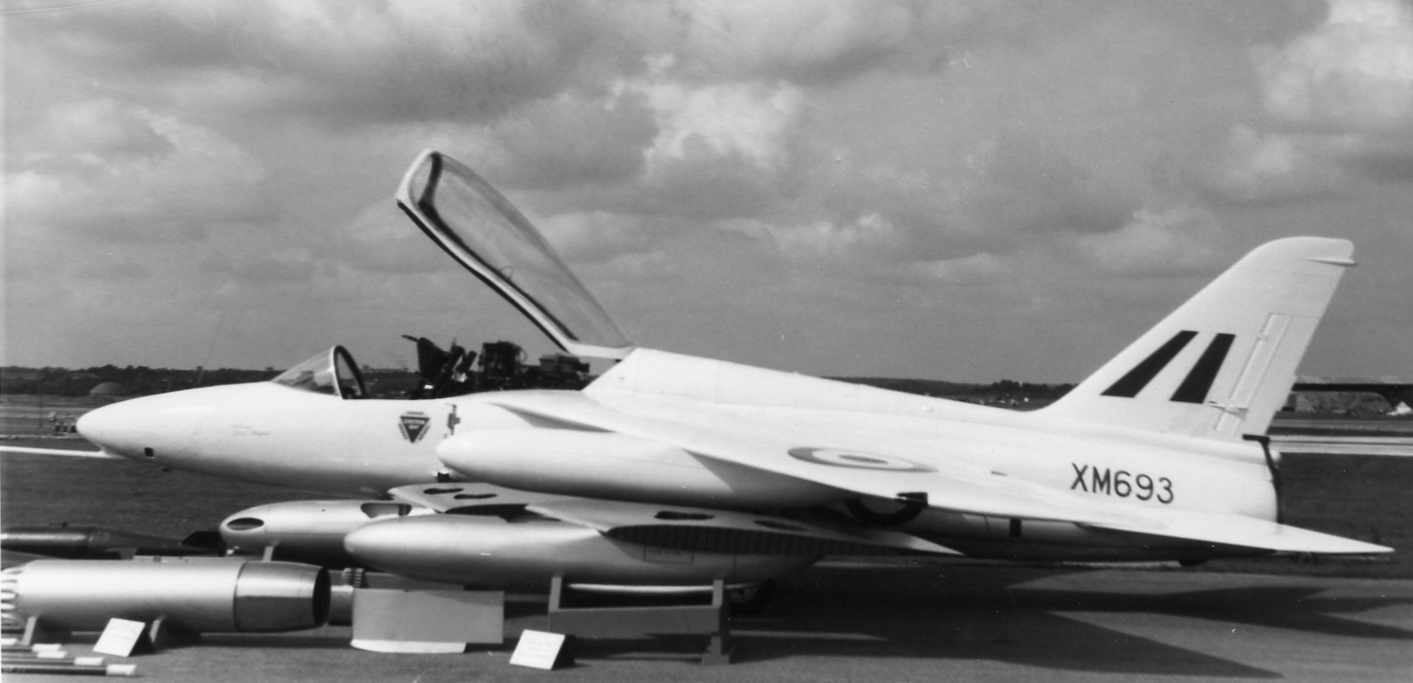 The third prototype Folland Gnat T.1 at the SBAC show, Farnborough 1961-9-9. The short nose indicates a development aircraft.